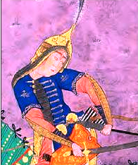 Painting of Gurdafarid in The Shahnama of Shah Tahmasp